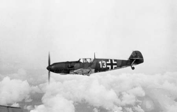 A German Messerschmitt Me 109E aircraft of 2/JG 1 (2nd Squadron, 1st Fighter Wing) in flight near Jever, Germany, in 1941.